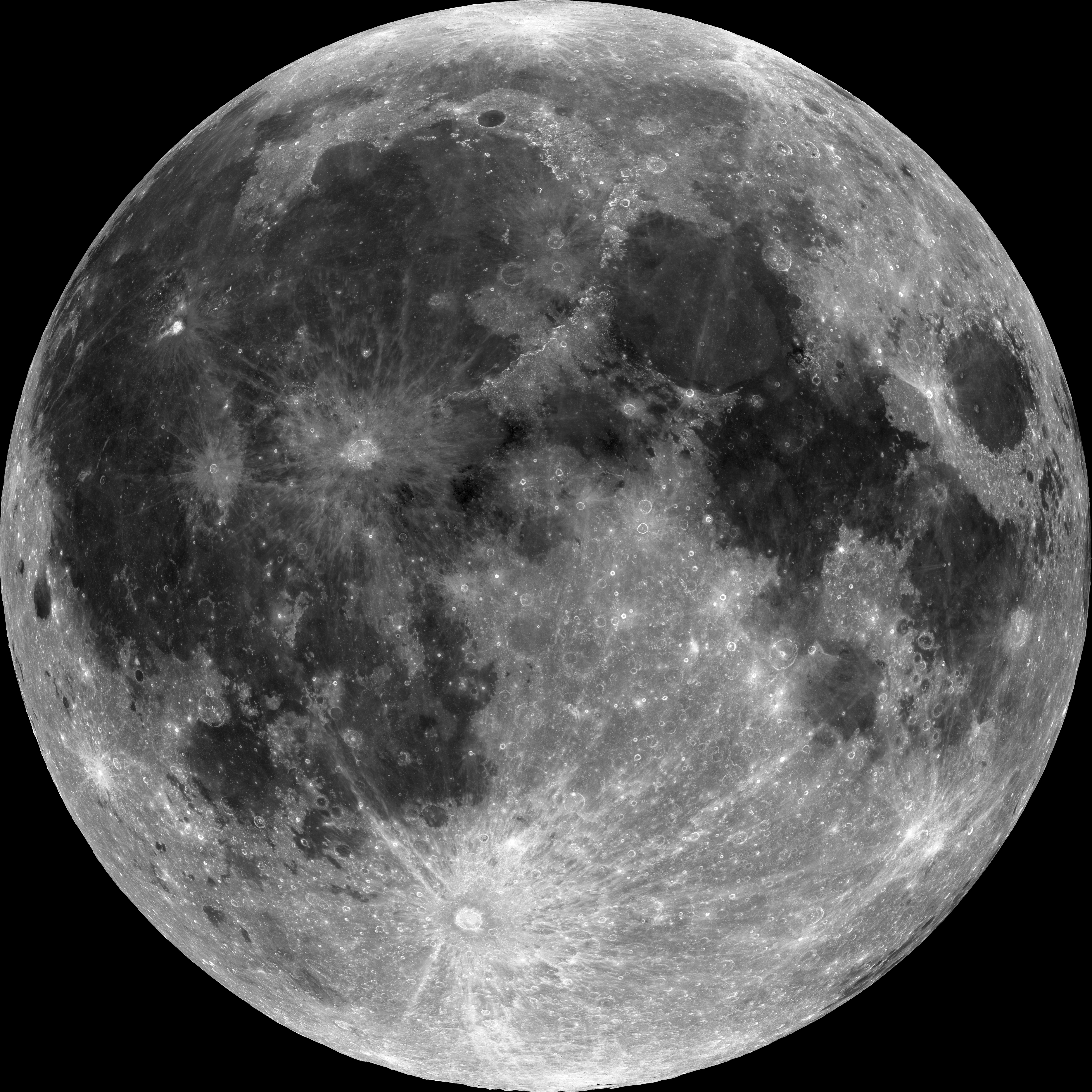 Moon nearside: mosaic of images, made by Lunar Reconnaissance Orbiter. Reflectance map, made from 36 Wide Angle Camera (WAC) mosaics on wavelength 643 nm. Centered on latitude 0.0, longitude 0.0. Brightness of the original image was increased. This image shares angle of view, orientation and cropping with Moon nearside LRO 5000.jpg, so, they are interchargeable in positional maps.